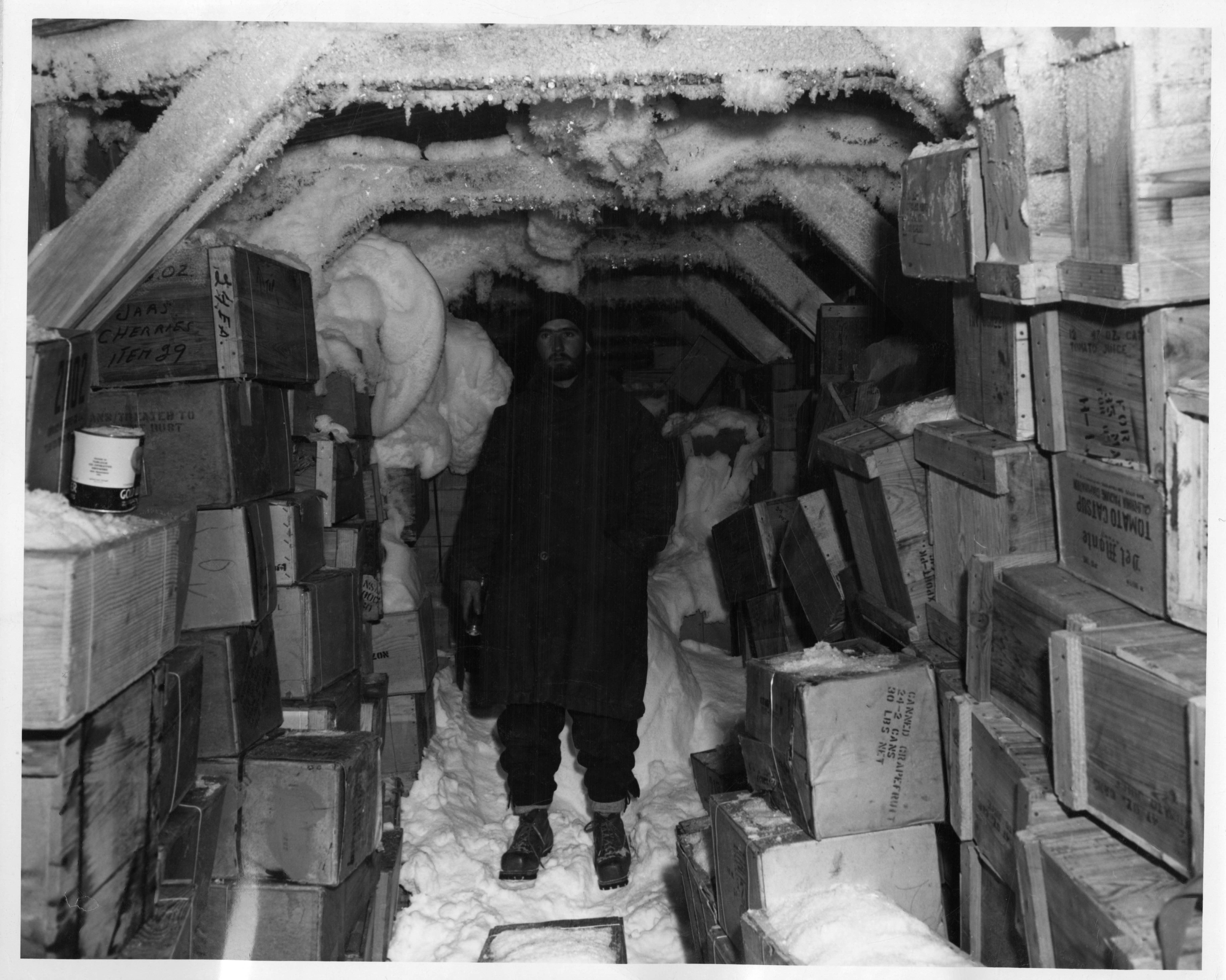 Operation Windmill Expedition Member Inside Building in Antarctica Author: Unknown Subject: Operation Windmill Type: Photographic print Person, candid Date: 1947 Topic: Research expeditions Scientific expeditions Snow Ice Standard number: SIA2010-0649 Physical description: Number of Images: 1 Color: Black and White; Size: 10w x 8h; Type of Image: Person, Candid; Medium: Photographic print Notes: Image located in Robert B. Klaverkamp's collection. Klaverkamp, an enlisted Naval Correspondent, participated in Operation Windmill. Malcolm Davis, zookeeper at the Smithsonian's National Zoological Park, was also on the expedition and was assigned to the Icebreaker USS Edisto (AG-89) with the express purpose of collecting penguins, other birds, and leopard seals Summary: Image of a member of Operation Windmill standing inside a building in Antarctica. The man is surrounded by supplies. Operation Windmill (1947-1948) was an expedition established by the Chief of Naval Operations to train personnel, test equipment, and reaffirm American interests in Antarctica Place: Antarctica Persistent URL:Link to data base record Repository:Smithsonian Archives - History Div View more collections from the Smithsonian Institution.